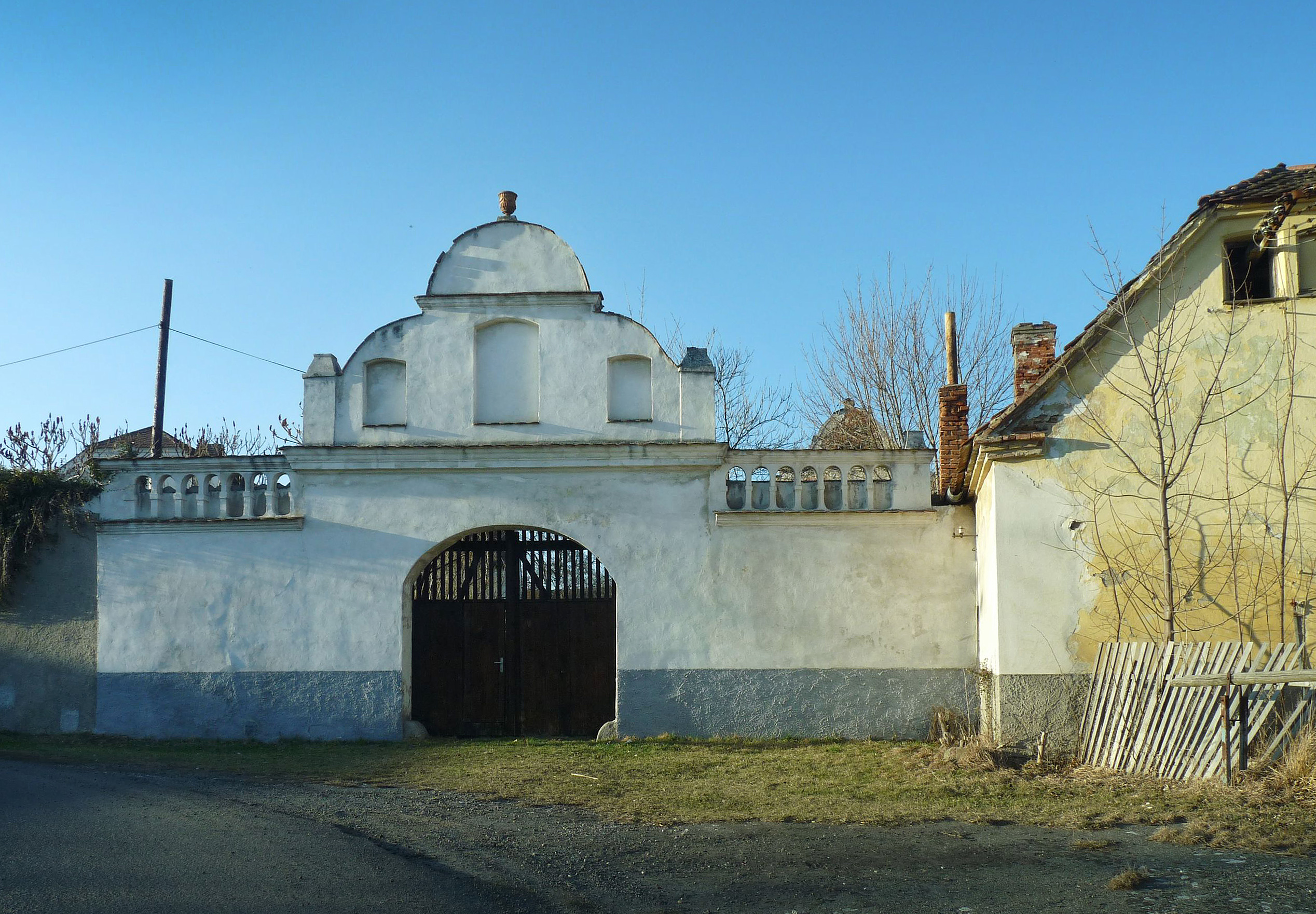 Entrance to the area of the so-called old rectory in the municipality of Nezamyslice, Klatovy District, Plzeň Region, Czech Republic